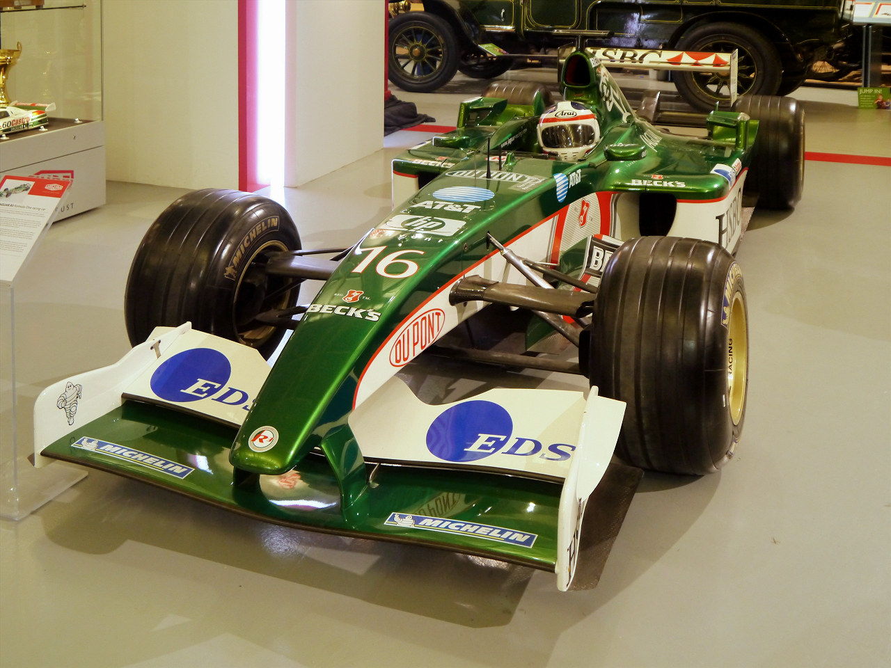 The Jaguar Heritage Trust display area, created in July 2012 houses a collection of ten vehicles representing some of Jaguar’s sports and racing cars. The vehicles are owned by the Jaguar Daimler Heritage Trust and were transferred from Jaguar Heritage Trust’s former museum at Browns Lane, Coventry prior to its closure. This is the Jaguar R3 Formula One car driven by Eddie Irvine during the 2002 Grand Prix season.